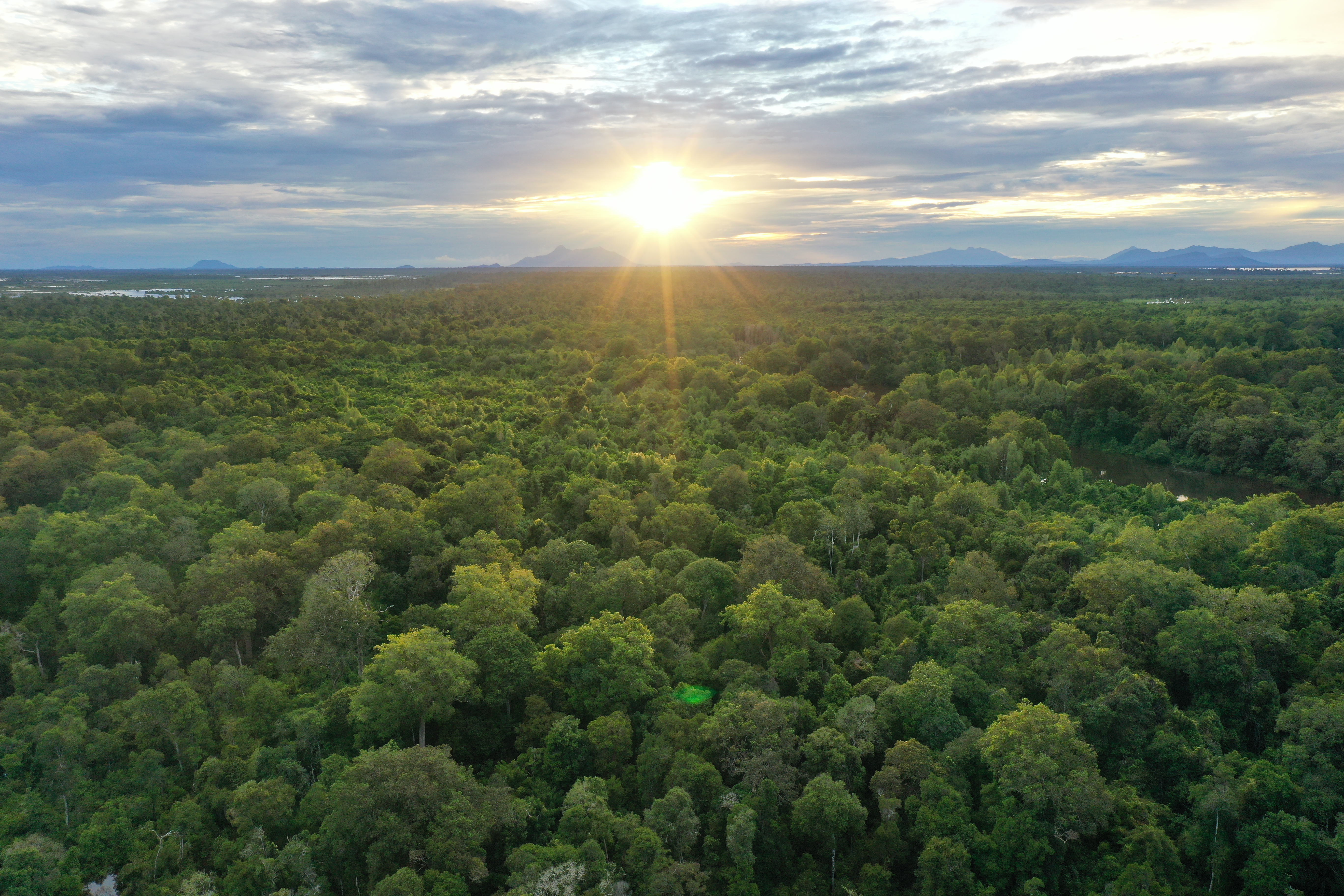 Panorama hutan di pesisir danau bekuan Taman Nasional Danau Sentarum.